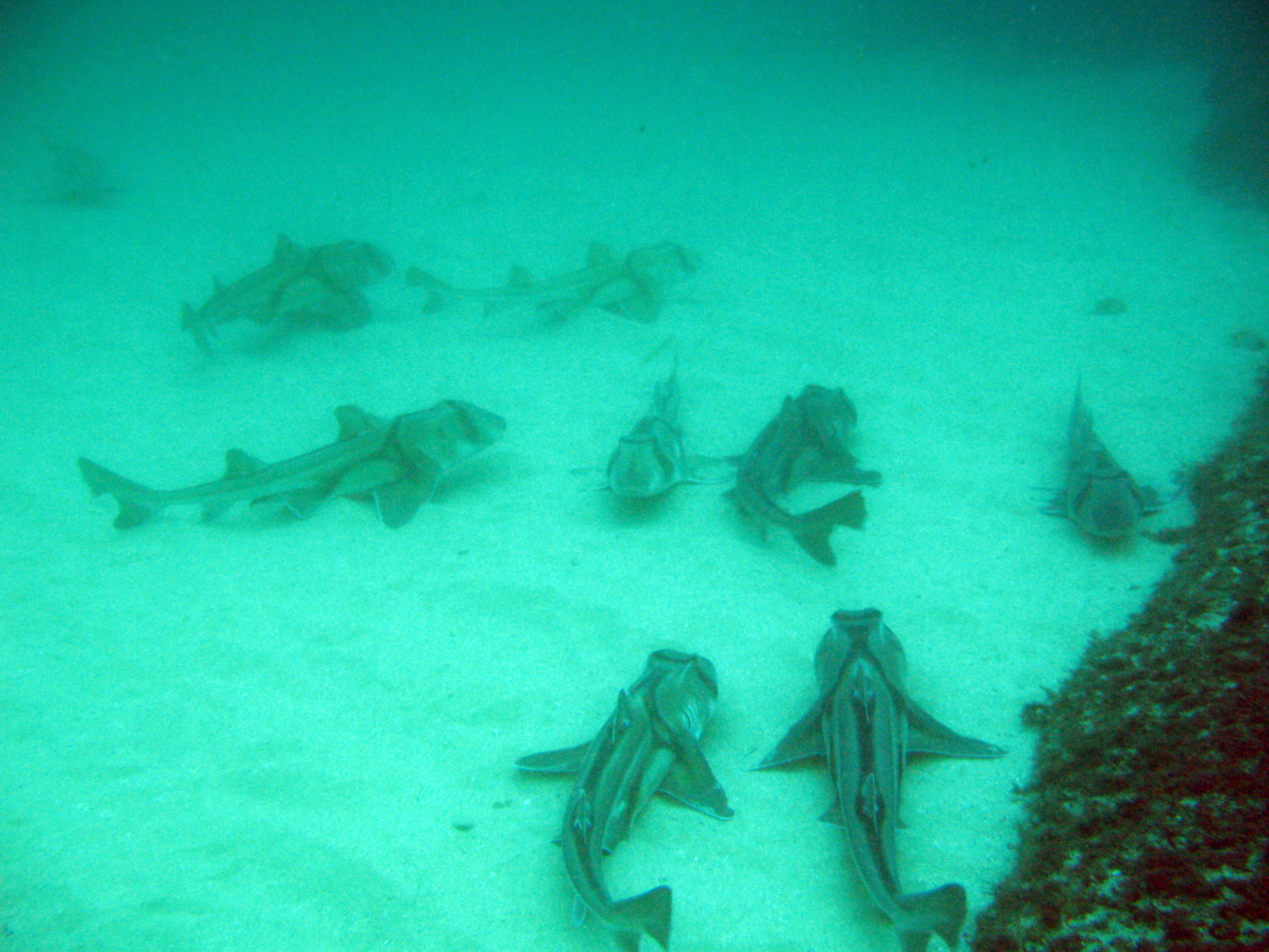 Group of Port Jackson sharks (Heterodontus portusjacksoni) off Bare Island, NSW.